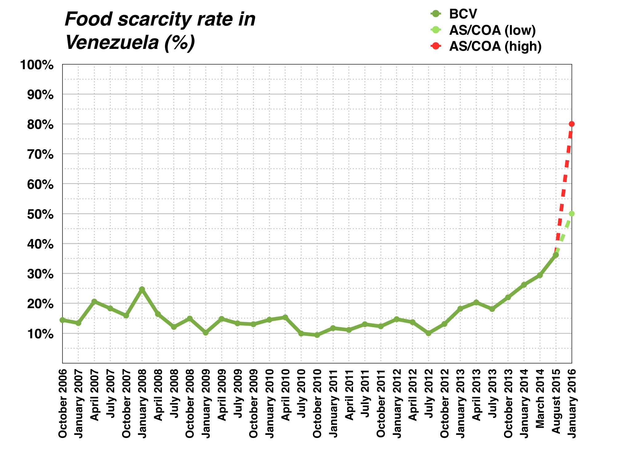 Graph showing food scarcity in Venezuela. Sources: Central Bank of Venezuela, Americas Society/Council of the Americas